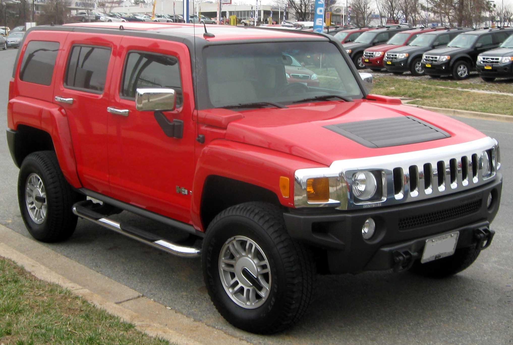 Hummer H3 photographed in Silver Spring, Maryland, USA.